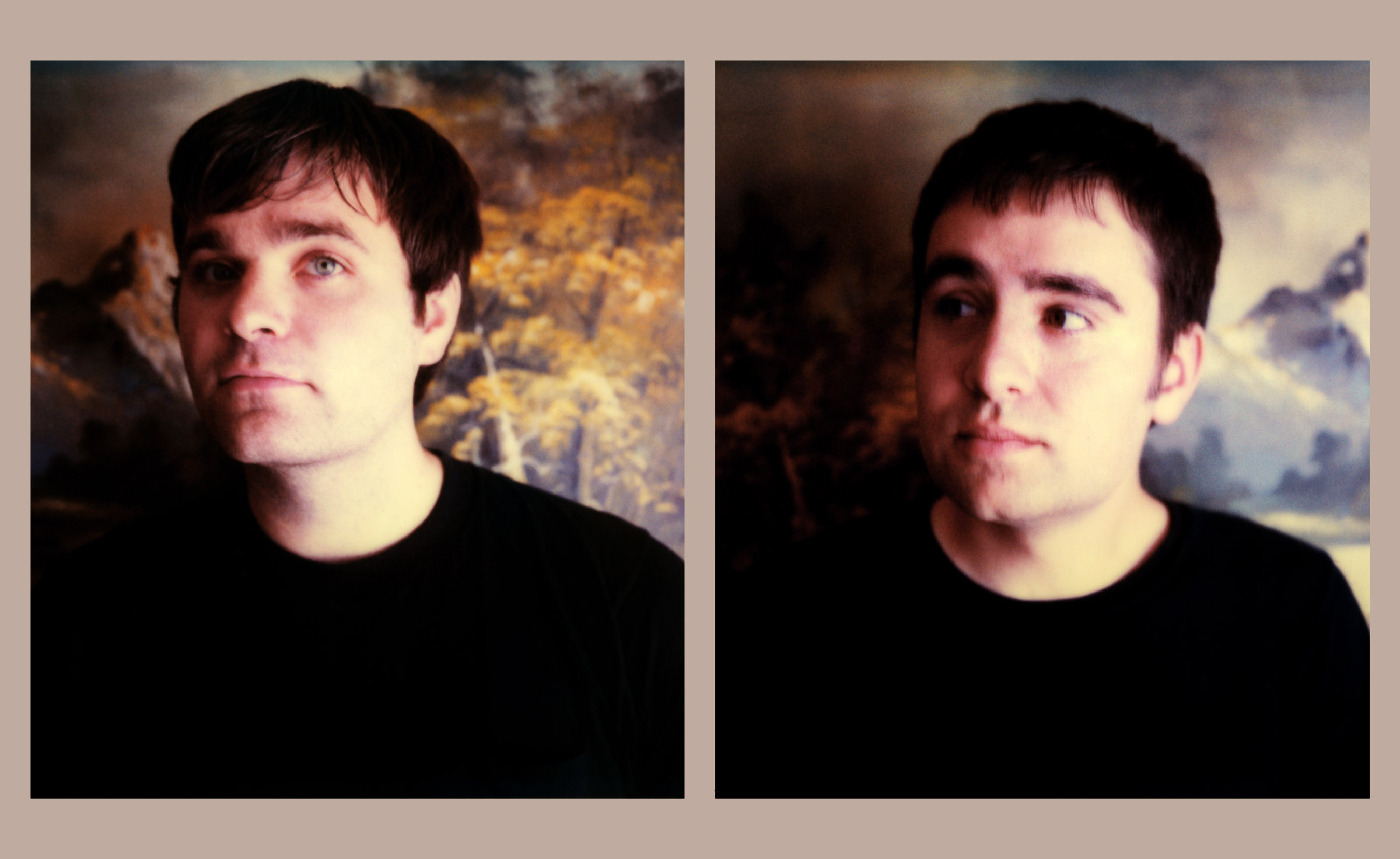 Musical group "The Postal Service"